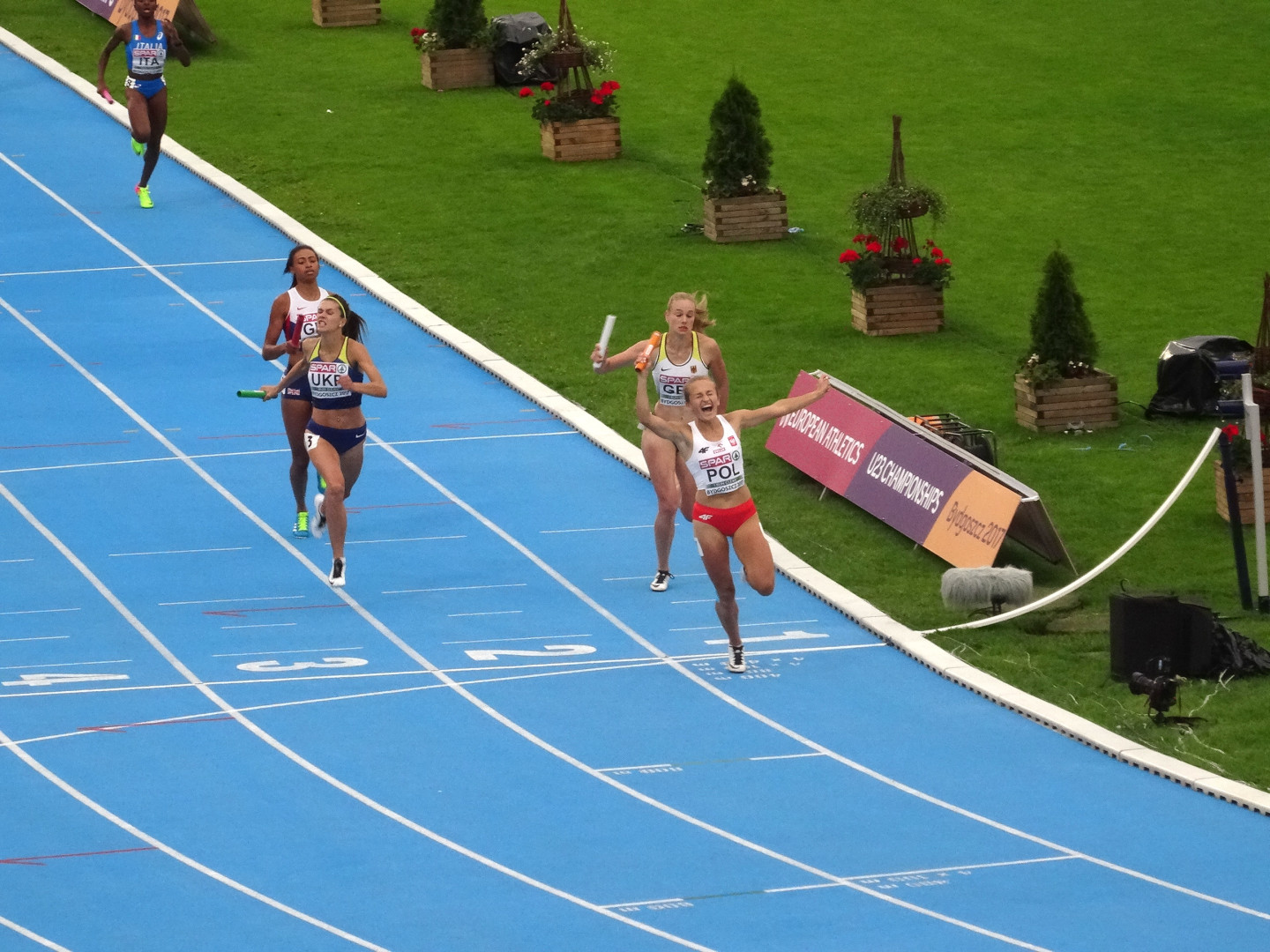 2017 European Athletics U23 Championships in Bydgoszcz Poland, 4x100m relay women final